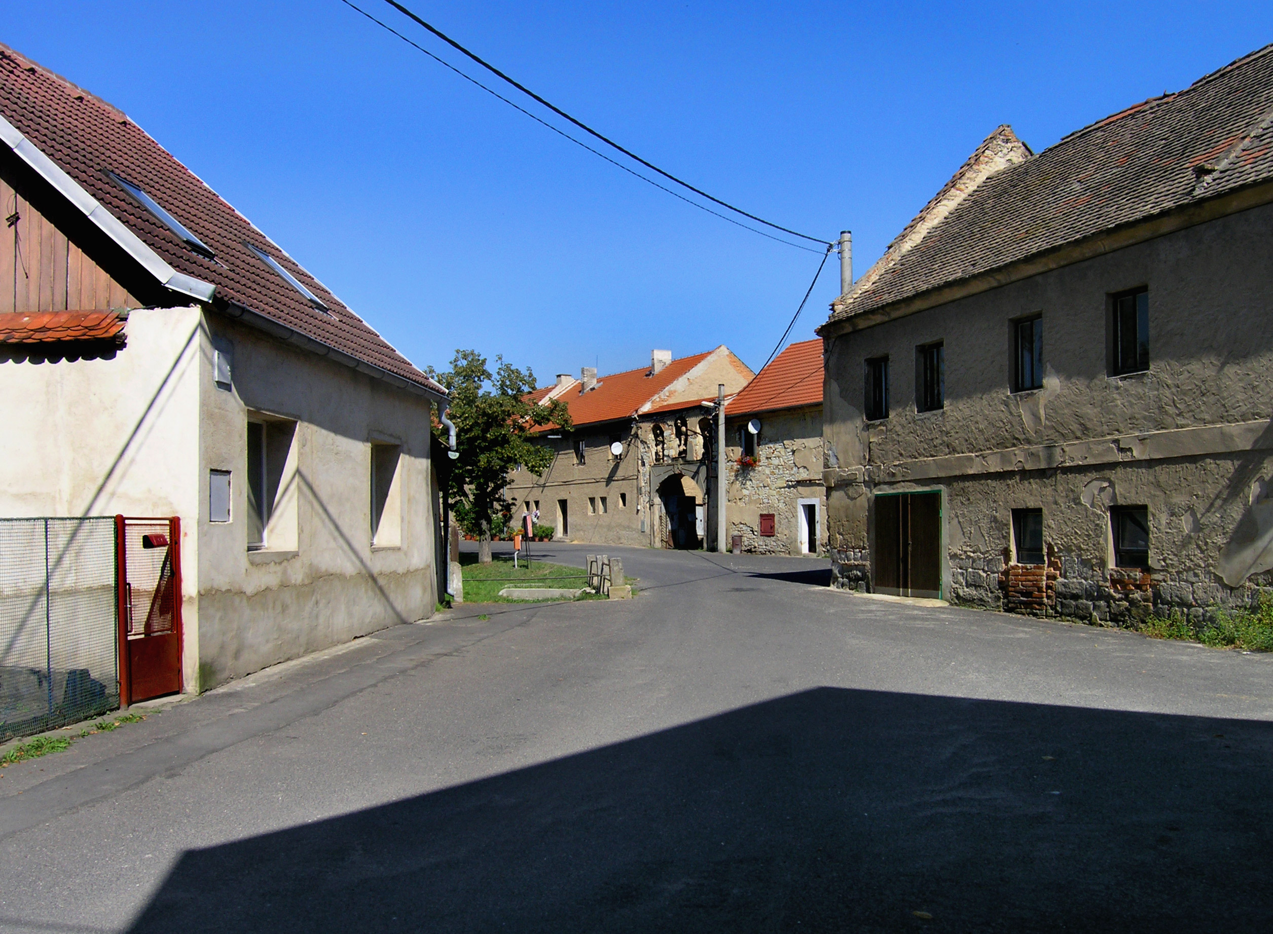 East part of Velký Újezd, part of Býčkovice village, Czech Republic